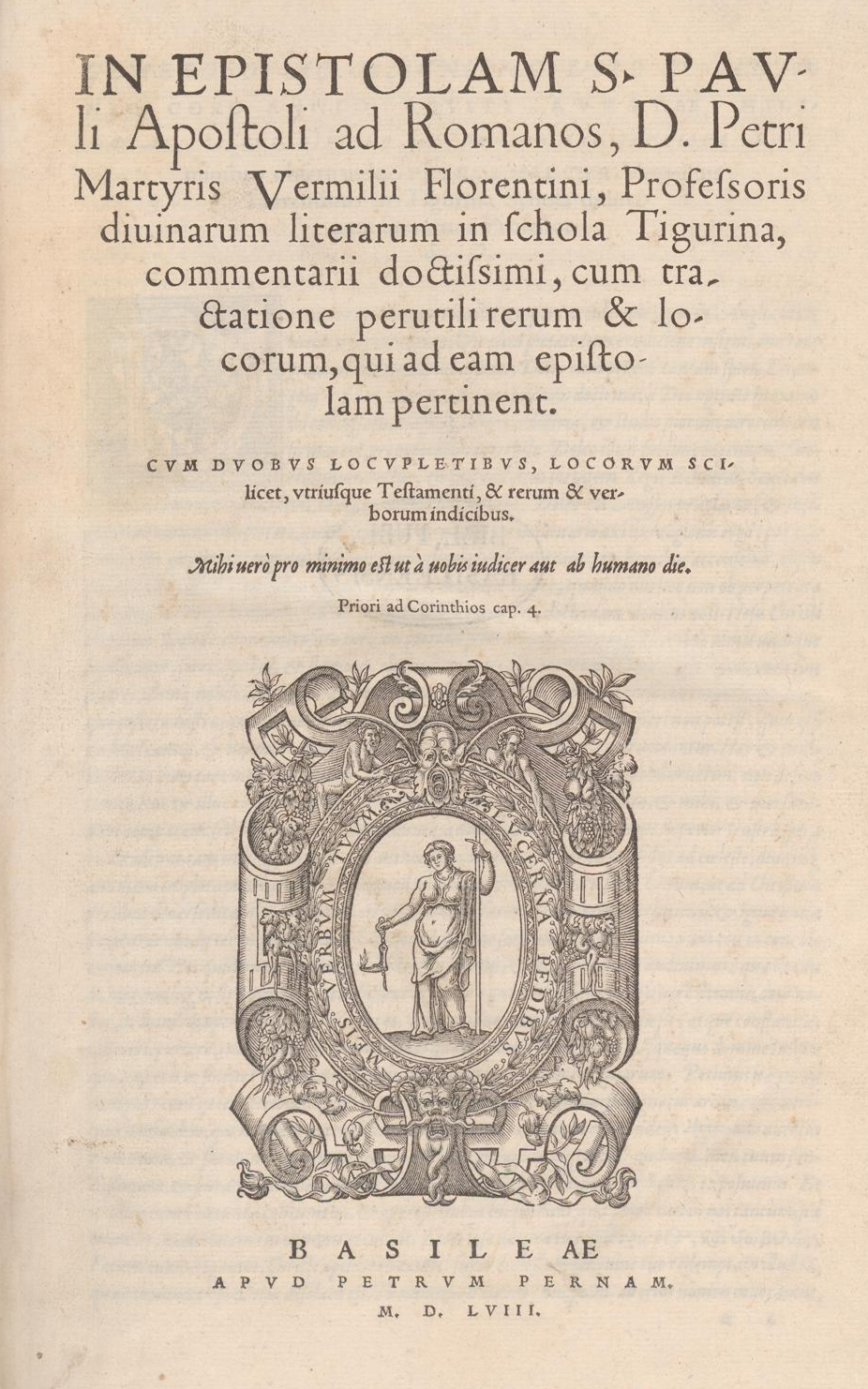 Commentary on the Epistle to the Romans